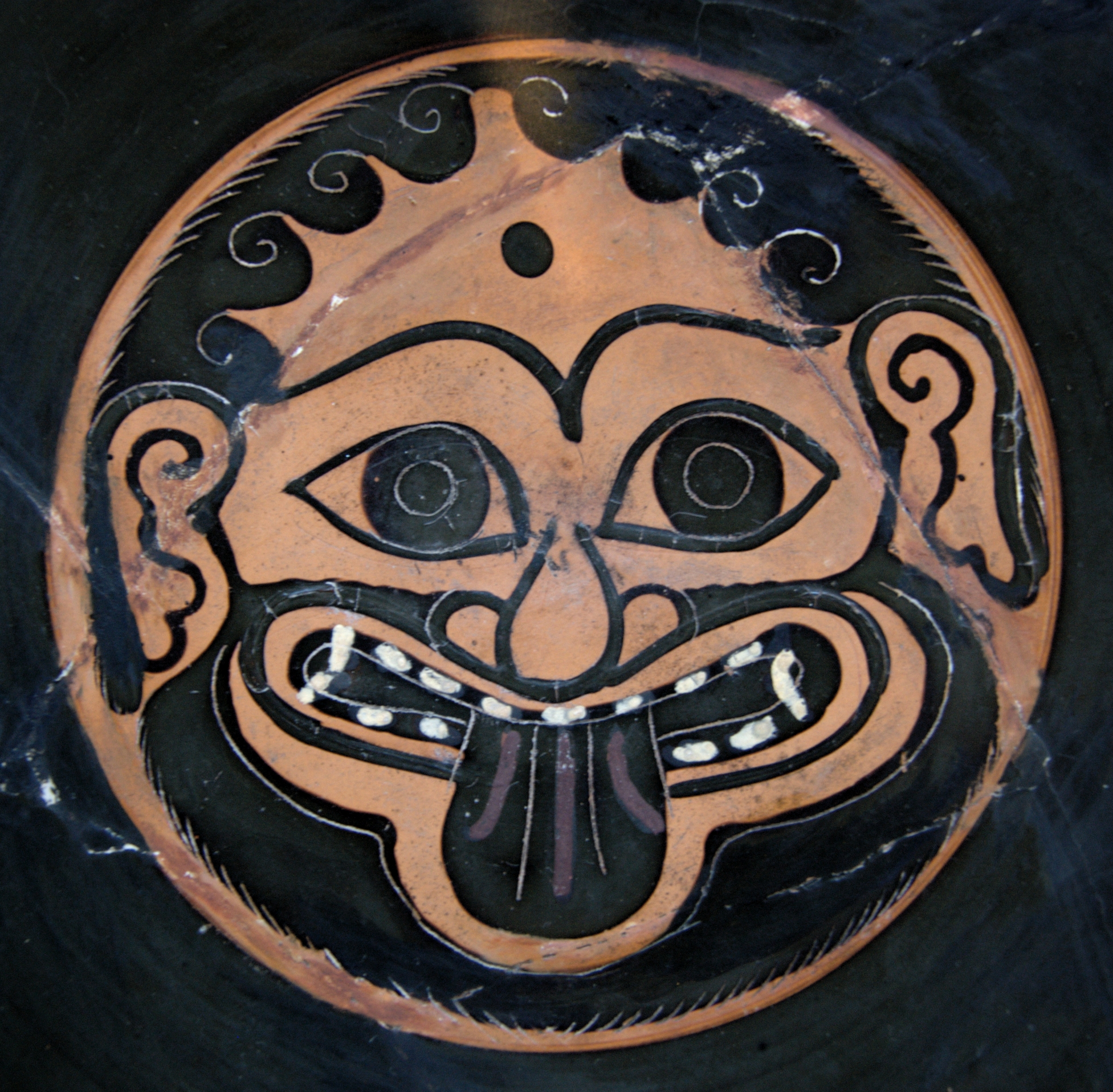 Gorgoneion. Attic black-figure cup, ca. 520 BC. From Cerveteri.